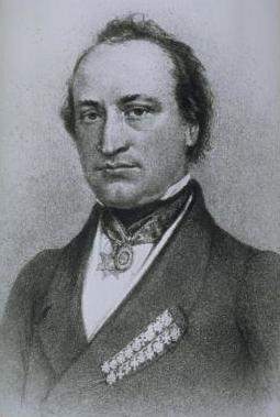 Digital reproduction of Alois Auer, printer, inventor, and botanical illustrator.